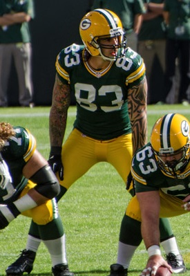 San Francisco 49ers vs. Green Bay Packers at Lambeau Field on September 9, 2012. Photo by Mike Morbeck.